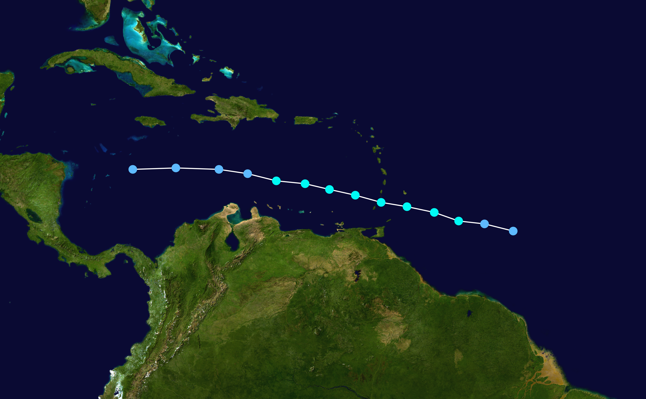 Tropical Storm Danielle (1986) track. Uses the color scheme from the Saffir-Simpson Hurricane Scale.